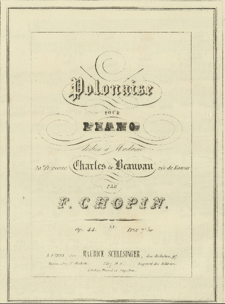 The cover of the first edition of Frederic Chopin's Polonaise in F-sharp minor, Op.44.